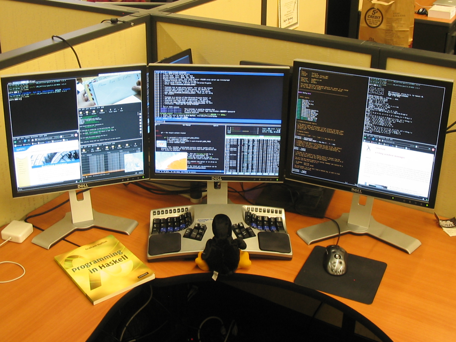 This is a screenshot of an X window manager named Xmonad; it is a screenshot taken by Xmonad developer Don Stewart, displaying Xmonad's tiled modes running on three screens simultaneously, using X11's Xinerama extension. The split keyboard is a Kinesis Contoured Advantage Pro.